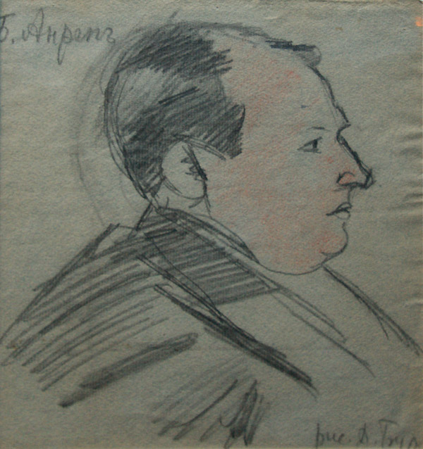 B. Anrep by D.Burlyuk (1900-1910, Akhmatova's museum)